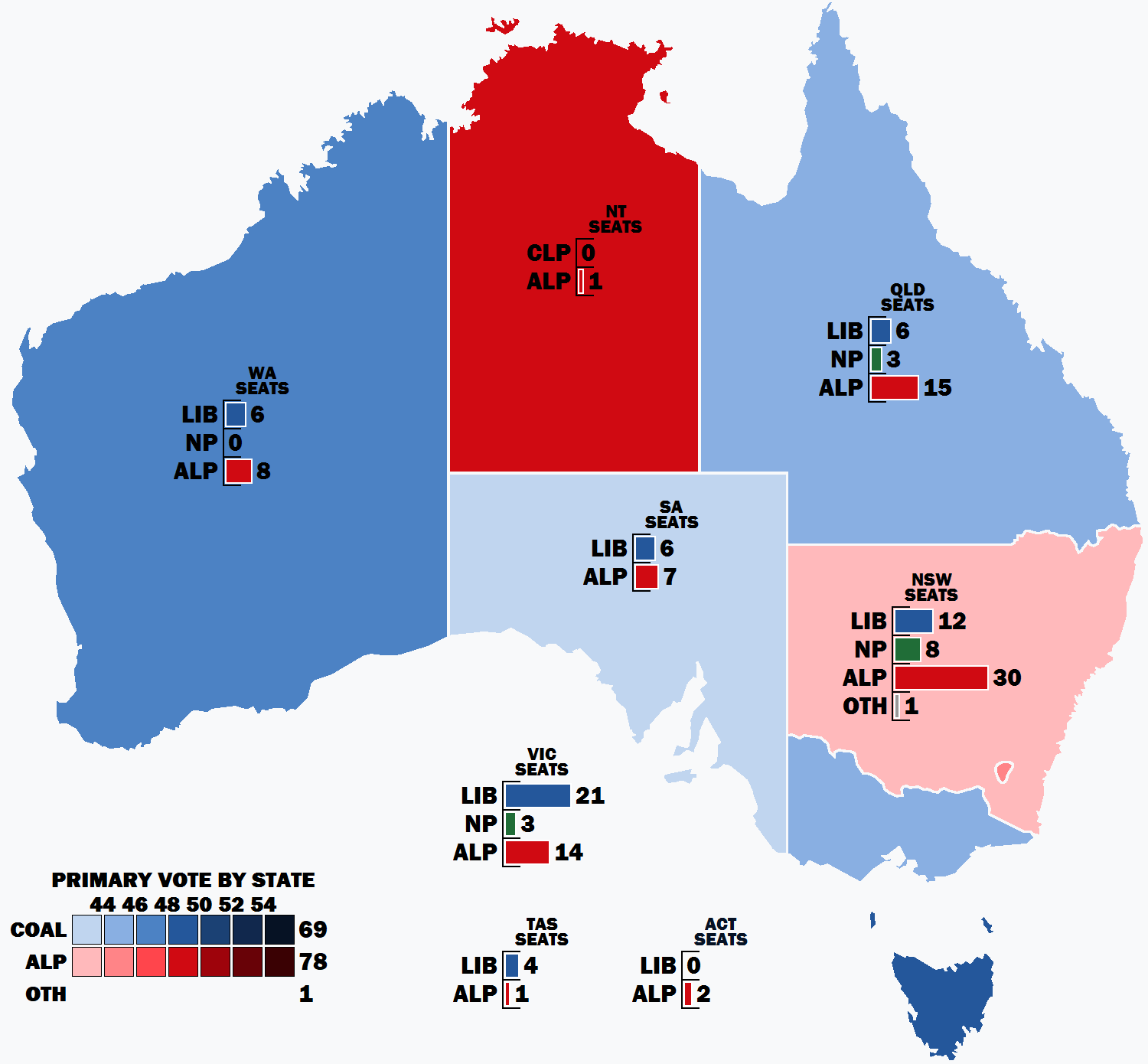 Result of the primary vote by state and territory in the 1990 Australian federal election.